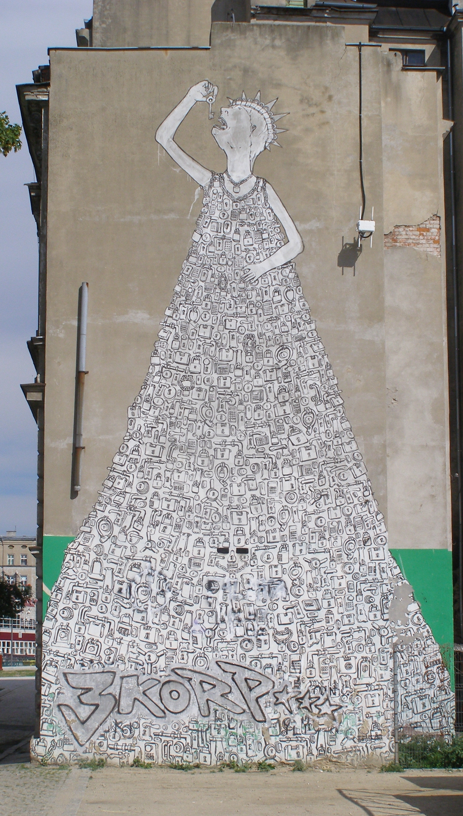 Wrocław - a mural on a building on the Słodowa Island